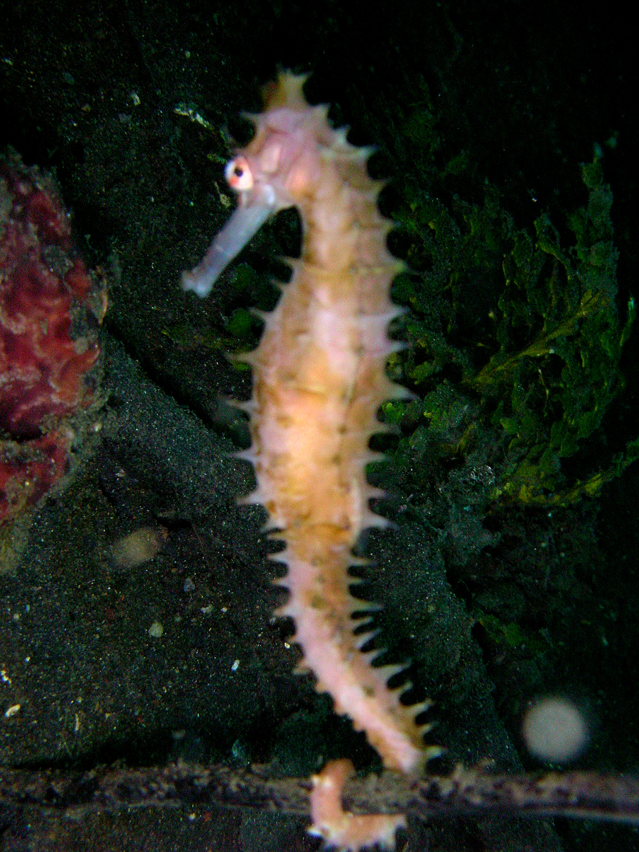 Hippocampus histrix - Thorny Seahorse